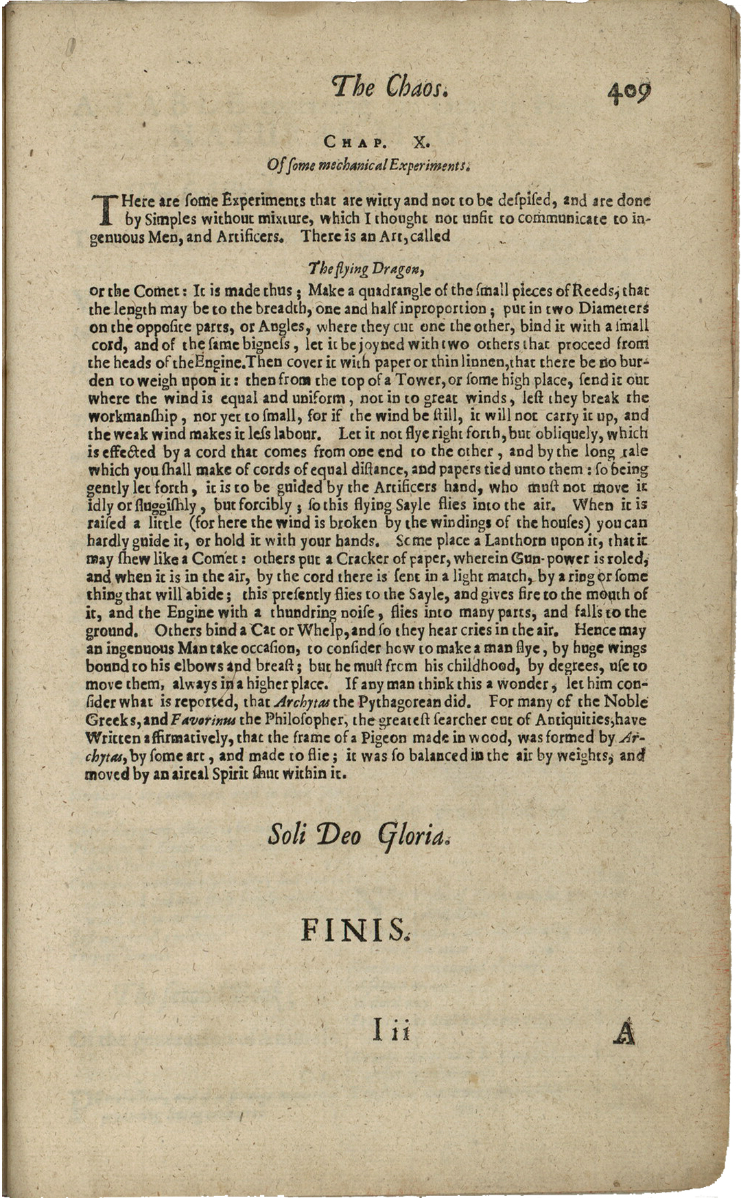 John Baptista Porta, Natural magick, Page 409.